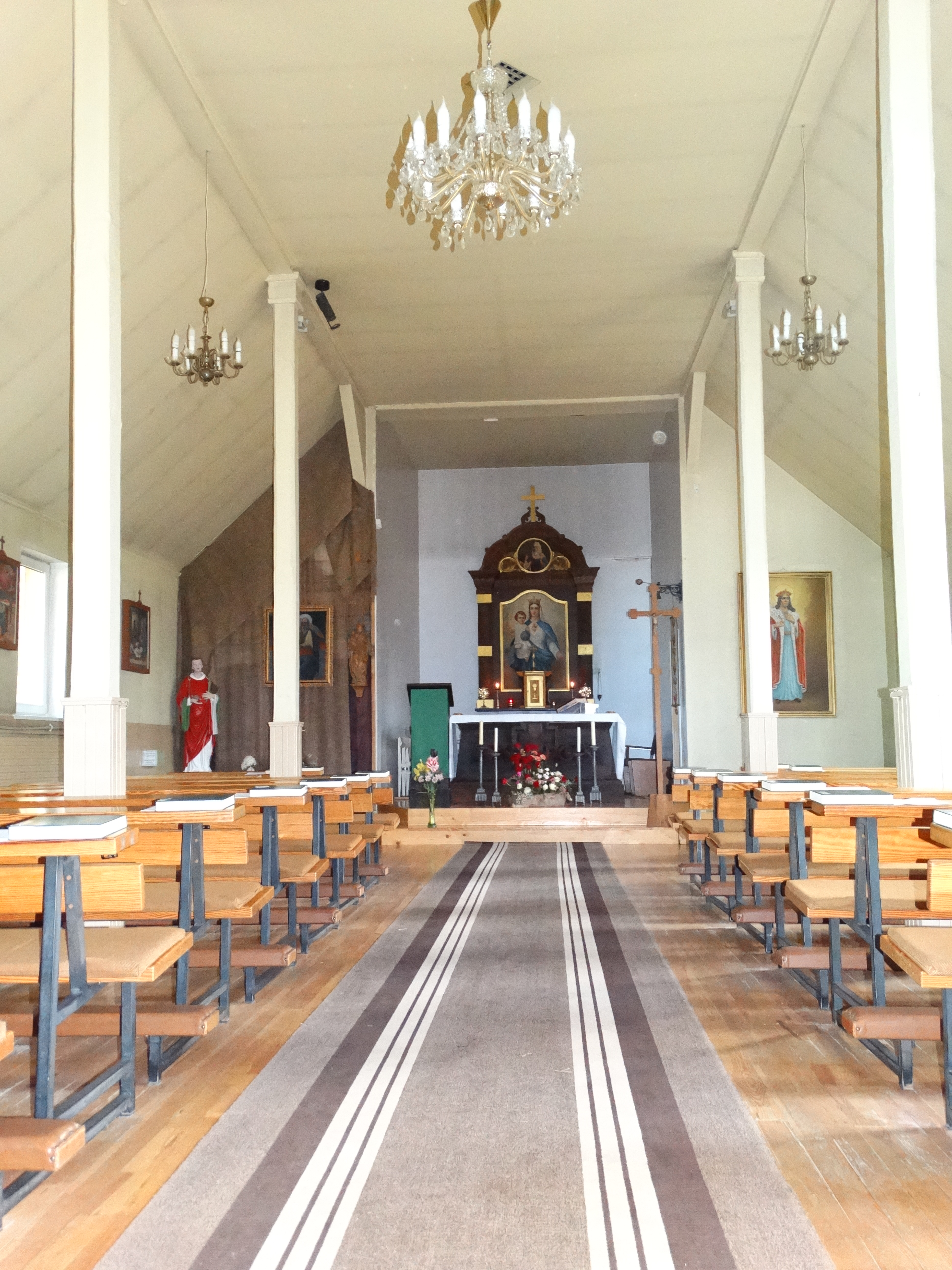 St. Anne's Church in Karmėlava, interior, Kaunas district. Lithuania